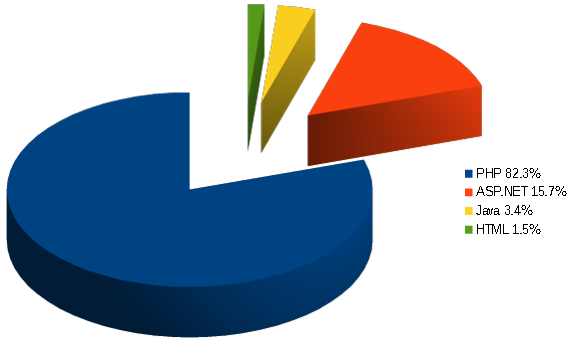 Websites programming languages repartition.